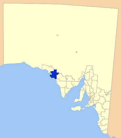 Modification of Astrokey44's original map found here: File:SA_LGA_blank.png Position of Coober pedy LGA